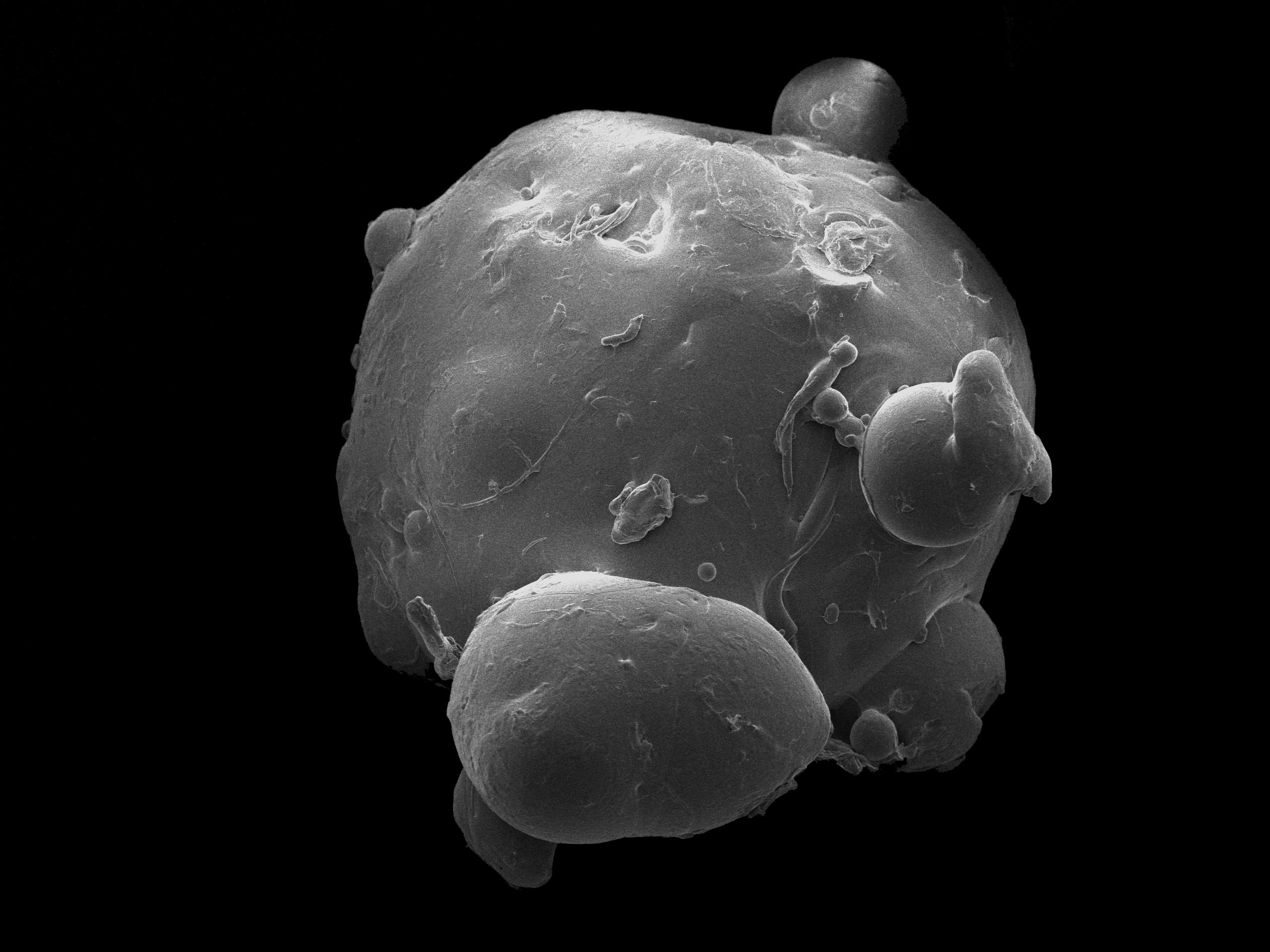 This is an image of a plastic microbead from a facewash, taken via scanning electron microscopy; it is about 0.5mm wide. Microbeads are used for their exfoliating properties; many people don’t even know they are there. The major problem is they wash down the drain, pass through sewage works and into the sea and are ingested by marine animals. My work here in Exeter is to assess the effect this is having. Plastic microbeads are used as they are cheaper than more natural alternatives. They have been recently banned in many states of America and there are calls for the UK to follow suit. To see if your facewash contains plastic microbeads, check the ingredients list for Polyethylene or Polypropylene. Alternatively download the ‘beat the microbead’ app.